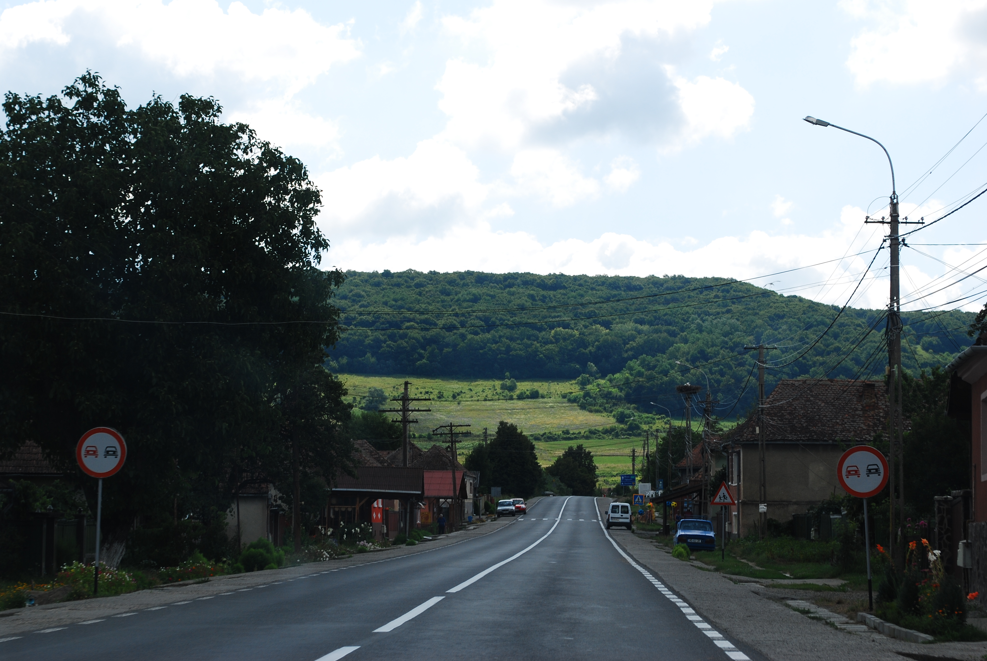 DN13 in Chendu, Mureş County, Romania